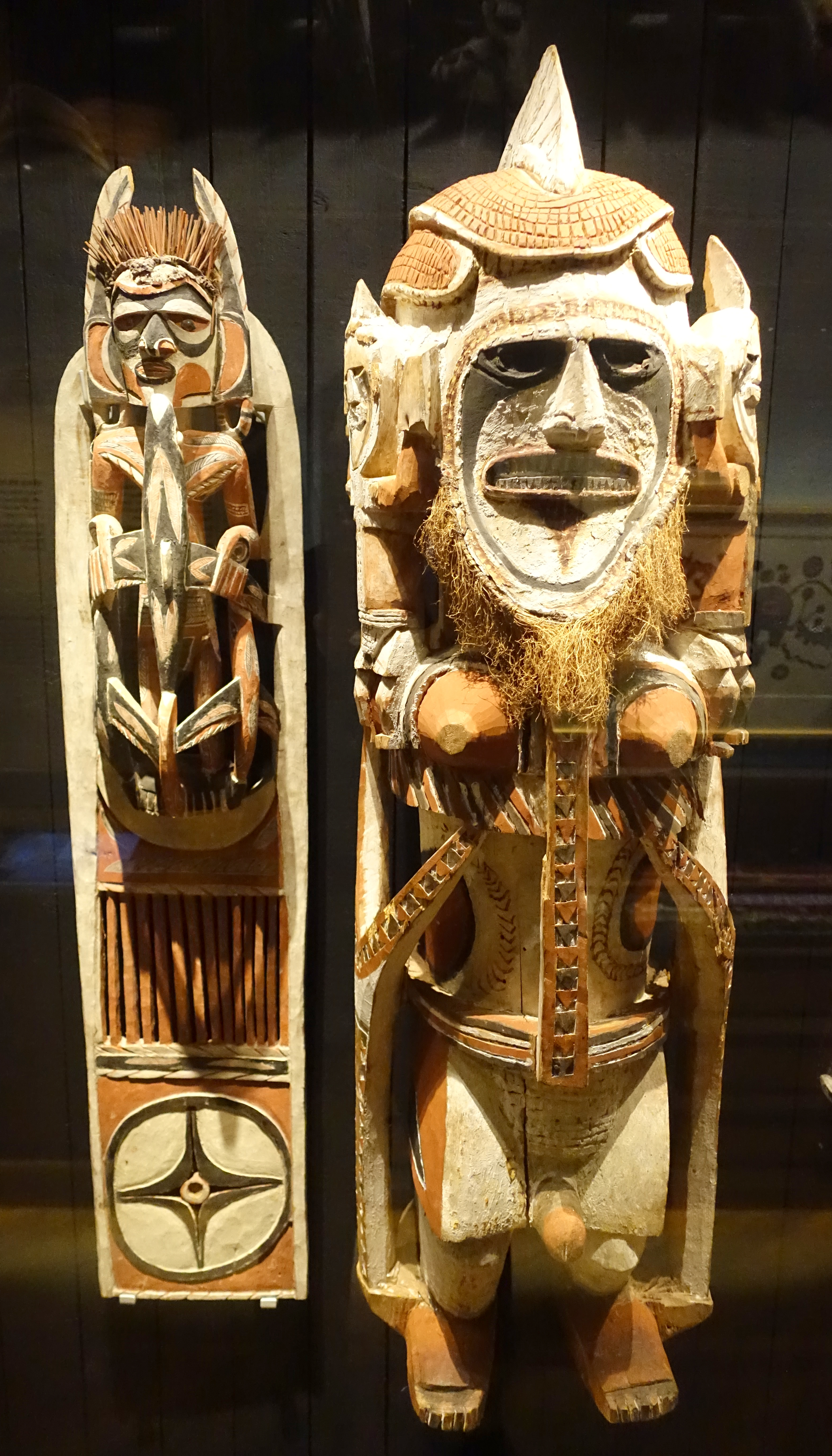 Exhibit in the Etnografiska museet, Stockholm, Sweden. This work is old enough so that it is in the public domain.